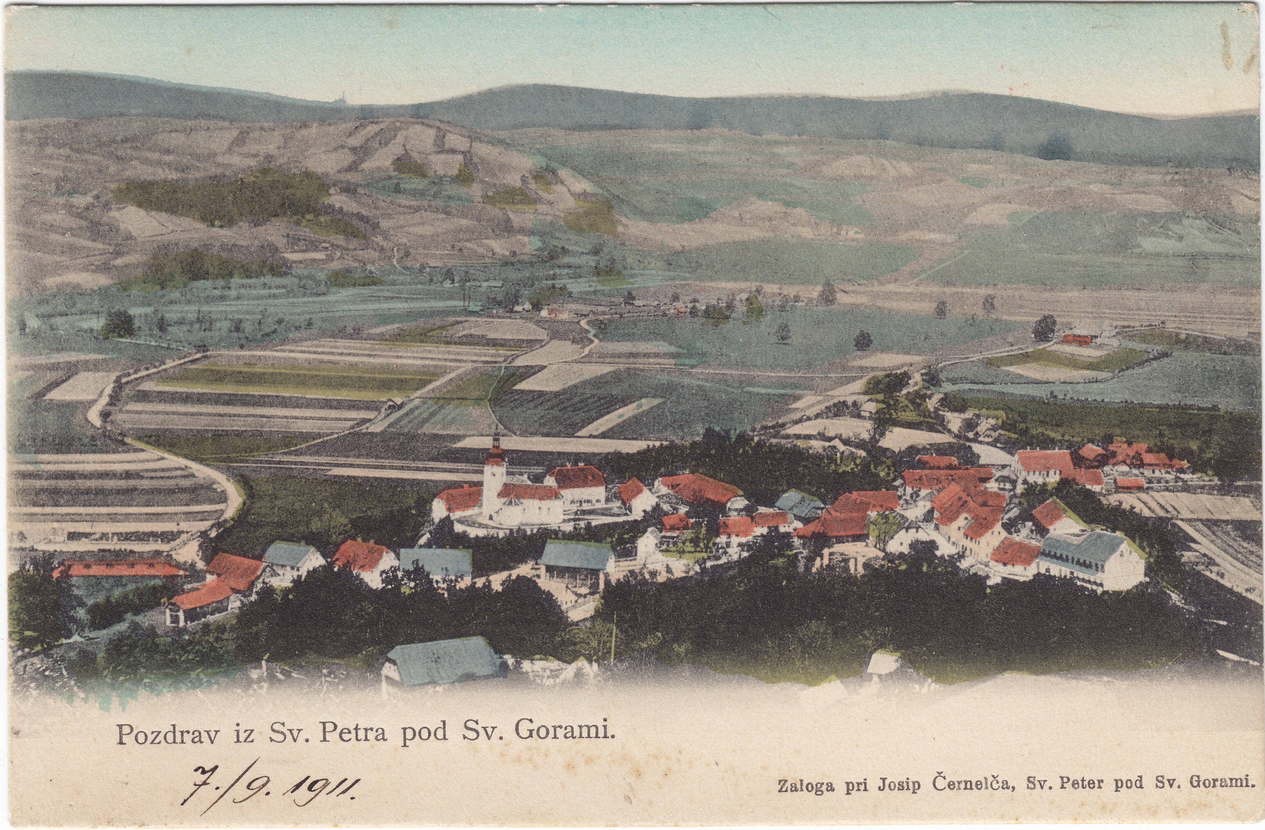 Postcard of Sv. Peter pod Sv. Gorami (Bistrica ob Sotli).